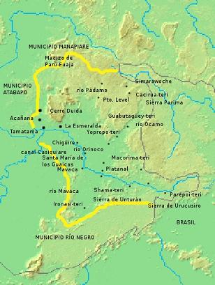 Alto Orinoco Municipality